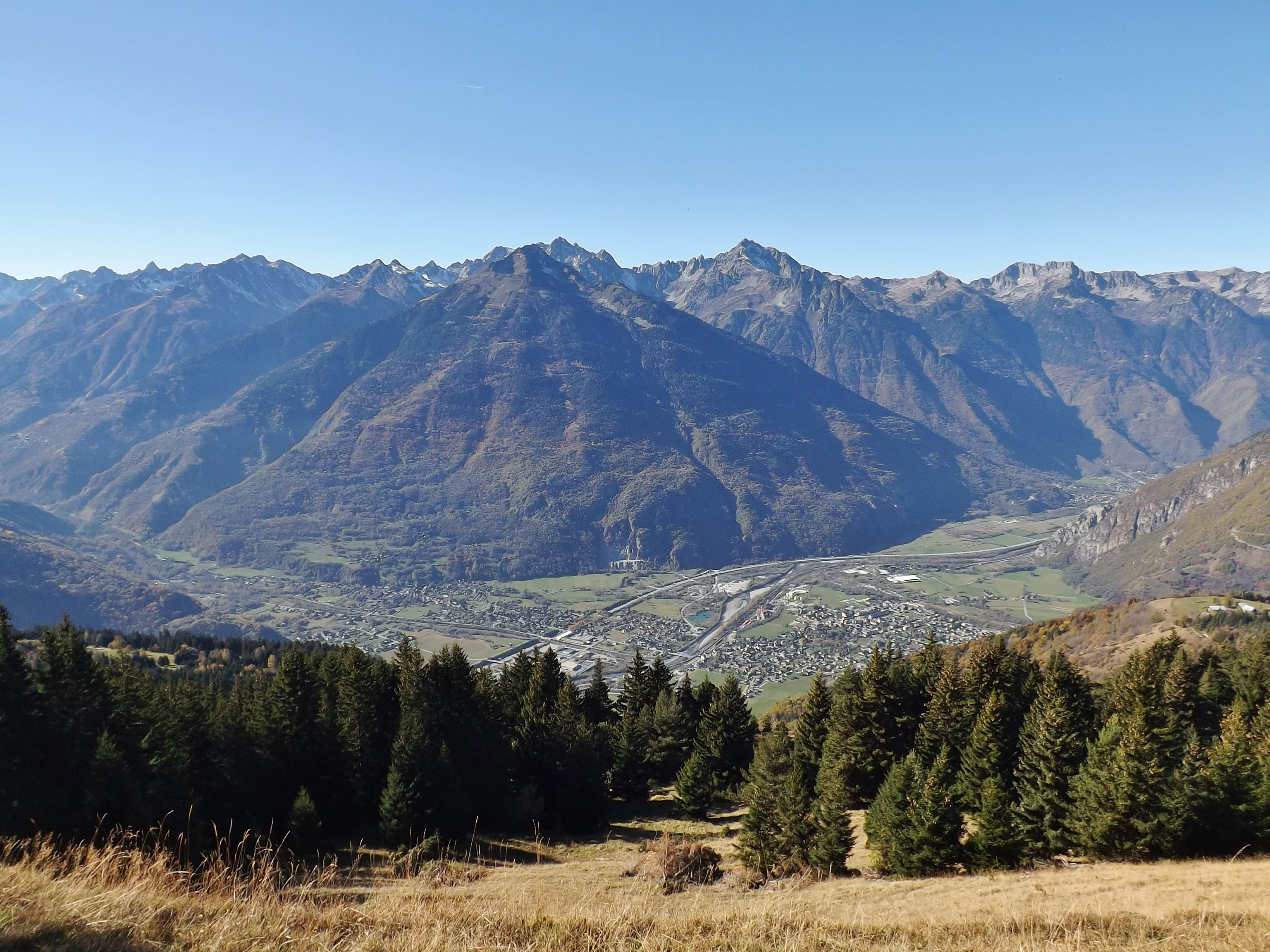 Aerian sight, from the heights of Montpascal, on the middle Maurienne valley around La Chambre, en Savoie. On the left can be seen the Villards valley leading to the Glandon pass.